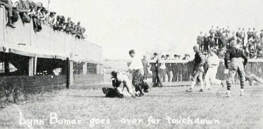 Lynn Bomar going over for a touchdown in the game between the Vanderbilt Commodores and Alabama Crimson Tide in 1921.